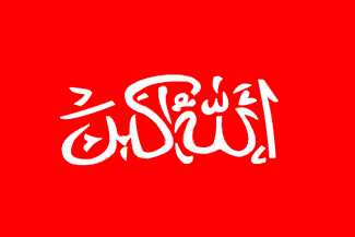 Flag of Waziristan resistance movement in the 1930s.